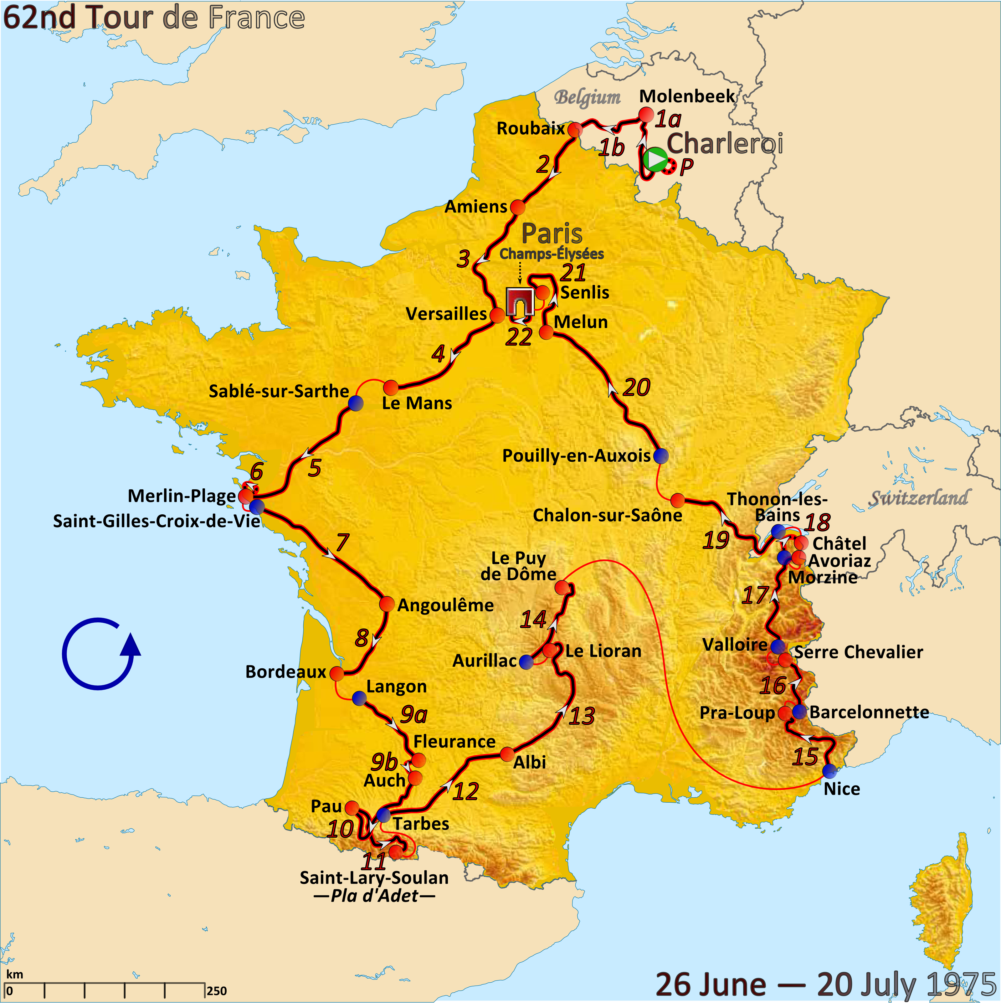 Map of the 1975 Tour de France created in Inkscape